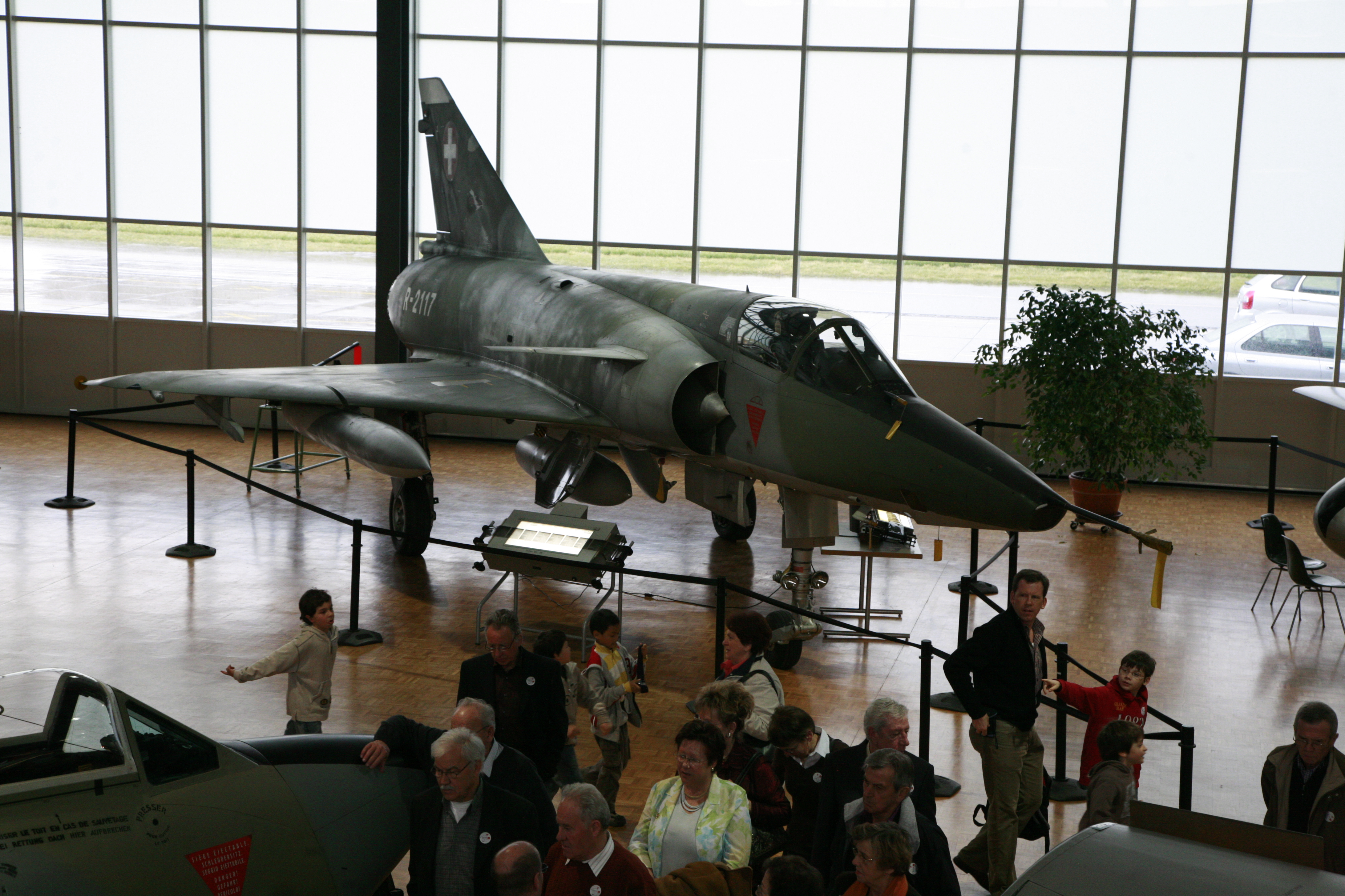 Dassault Mirage III of the Swiss Air Force, on display at Payerne Airbase.